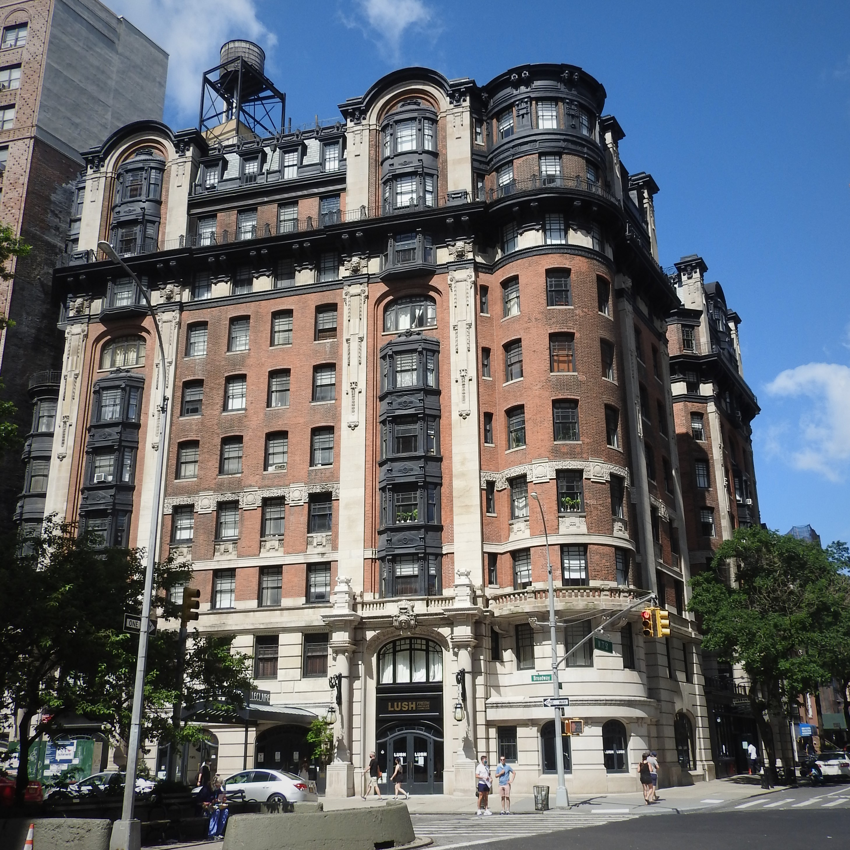 Looking west across Broadway on a sunny summer morning